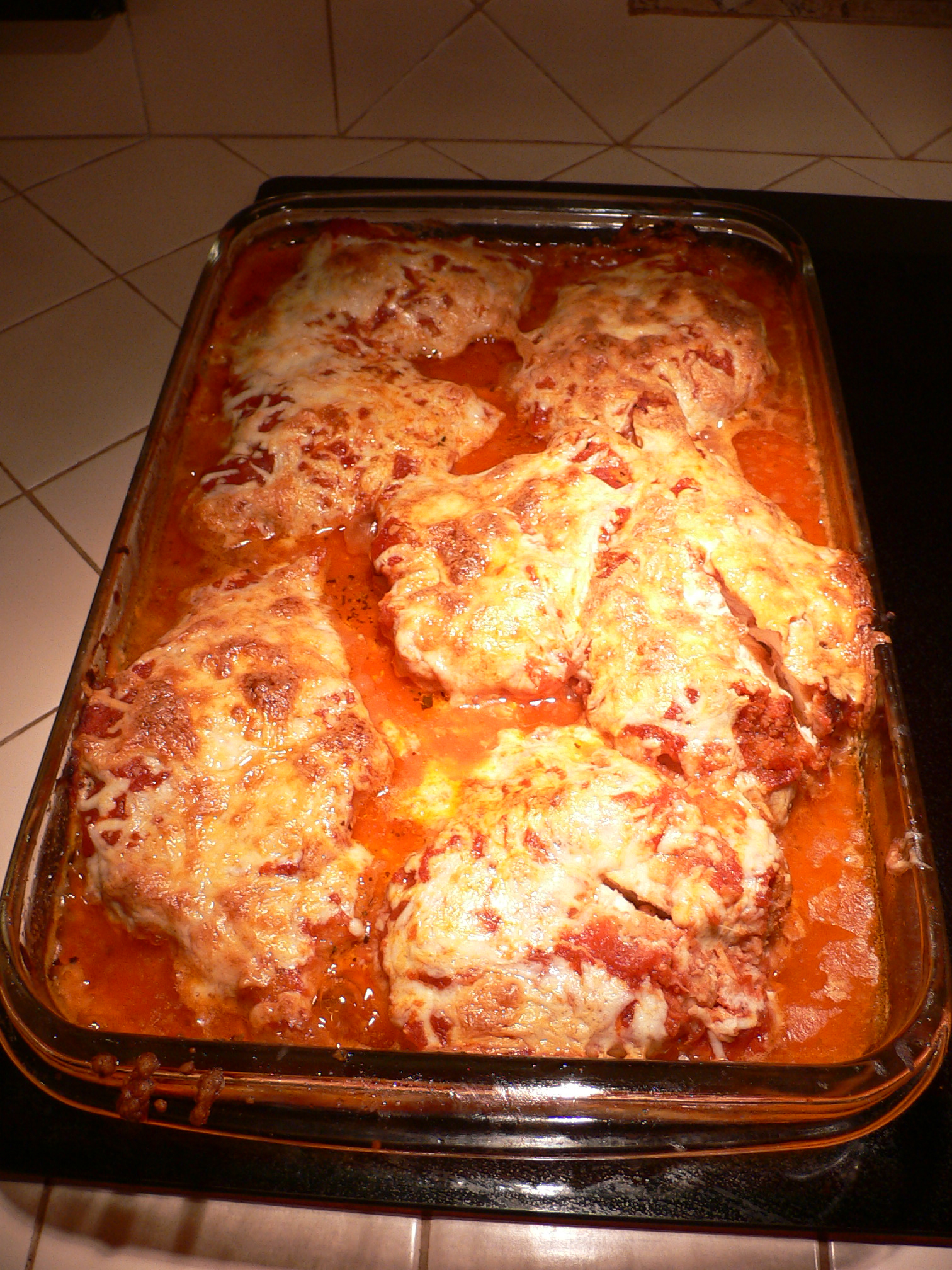 Delicious chicken parmesan, fresh from the oven. Cooked and photographed by me.